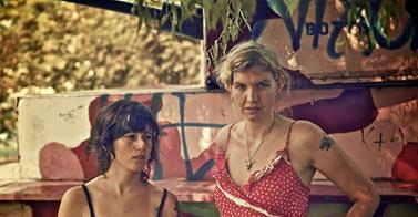 American band Trophy Wife, with Diane Foglizzo and Katy Otto. Picture taken by Danny Croucher